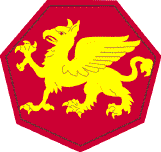 Description: On a red seven-sided polygon one side up of 1 5/16 inches (3.33cm) circumscribing radius, a yellow griffin passant. Symbolism: The seven-sided figure is representative of the seven states within which the Division was activated, while the griffin is symbolic of striking power from the air and strength on the ground. Background: The shoulder sleeve insignia was originally authorized for the 108th Airborne Division on 10 May 1948. It was amended to add the airborne tab on 1 Jun 1949. On 30 Mar 1953 the insignia was redesignated for the 108th Infantry Division and amended to delete the airborne tab. On 7 Sep 1960 the insignia was redesignated for the 108th Division.